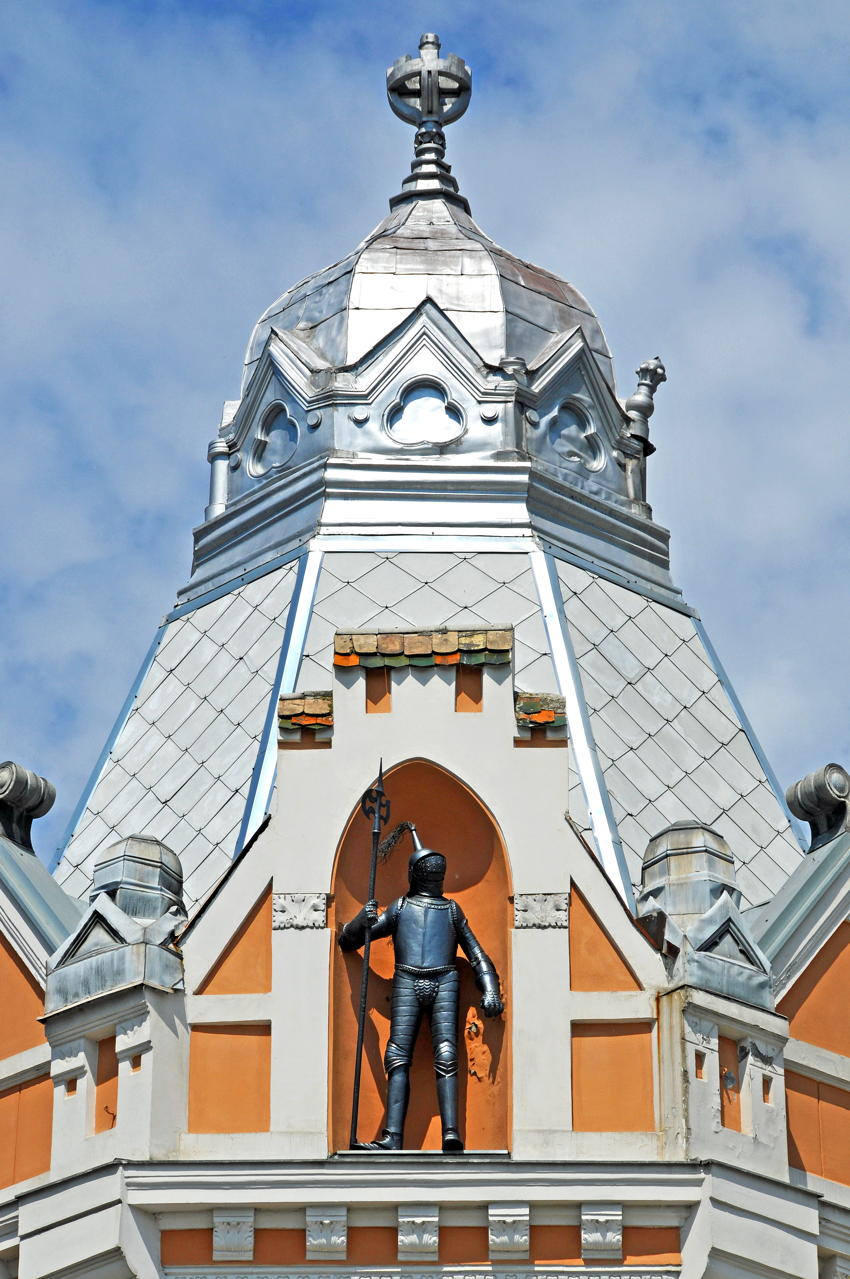 PLEASE, no multi invitations, glitters or self promotion in your comments, THEY WILL BE DELETED. My photos are FREE for anyone to use, just give me credit and it would be nice if you let me know, thanks - NONE OF MY PICTURES ARE HDR. Top of a building that hold a hostel for travellers. Called the ‘lead soldier’ building from 1909.